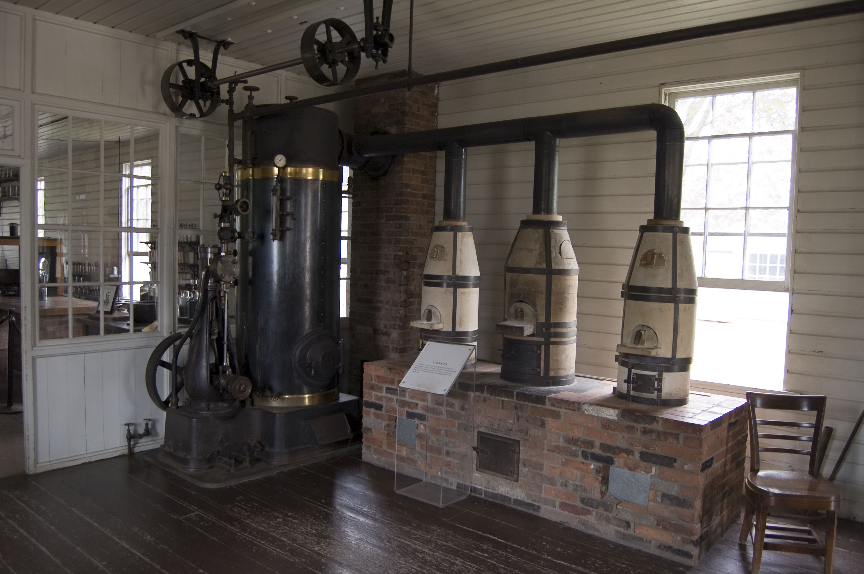 Three crucibles in Thomas Edison's Menlo Park Laboratory. At the left is a boiler and a small steam engine. This replica of the laboratory was built in 1929 in Greenfield Village.